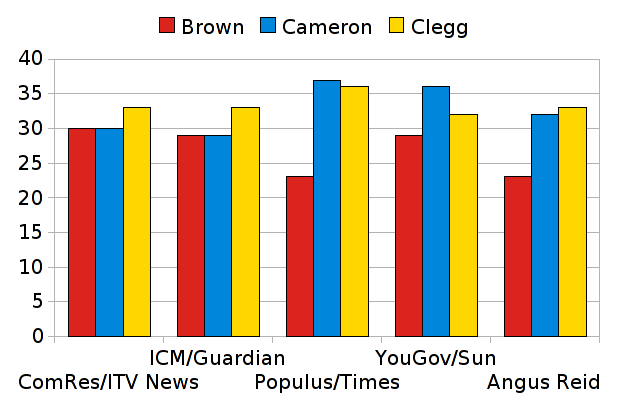 Graph of opinion poll results on the question of who voters considered to have won the second of the party leaders' televised debates, held on 22 April 2010, preceding the 2010 UK general election. The vertical axis indicates percentage and the horizontal gives the name of the polling organisations and the media outlets which commissioned the polls. Gordon Brown, David Cameron and Nick Clegg led the Labour, Conservative and Liberal Democrat parties respectively. Data is from a page revision of the English Wikipedia article on the debates, which gives its sources in footnotes. The graph was created in Draw and exported in PNG format due to problems with the SVG output.